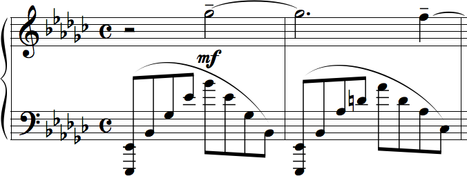 Elegie in E-flat minor, part of the Morceaux de Fantaisie, composed by Sergei Rachmaninoff